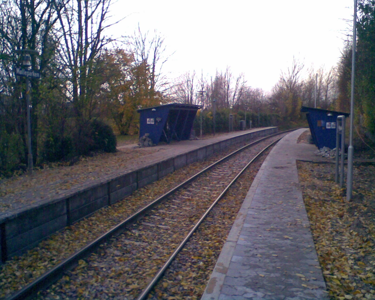 Mølleparken Station, Mårslet, Denmark